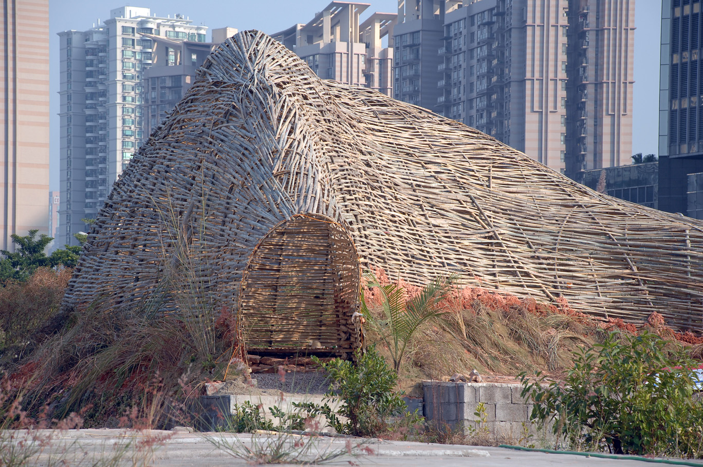 The "Bug Dome" in the 2009 Shenzhen - Hong Kong Bi-City Biennale of Urbanism/Architecture made entirely of bamboo by the WEAK! architects (Hsieh Ying-Chun, Roan Ching-Yueh, Marco Casagrande).